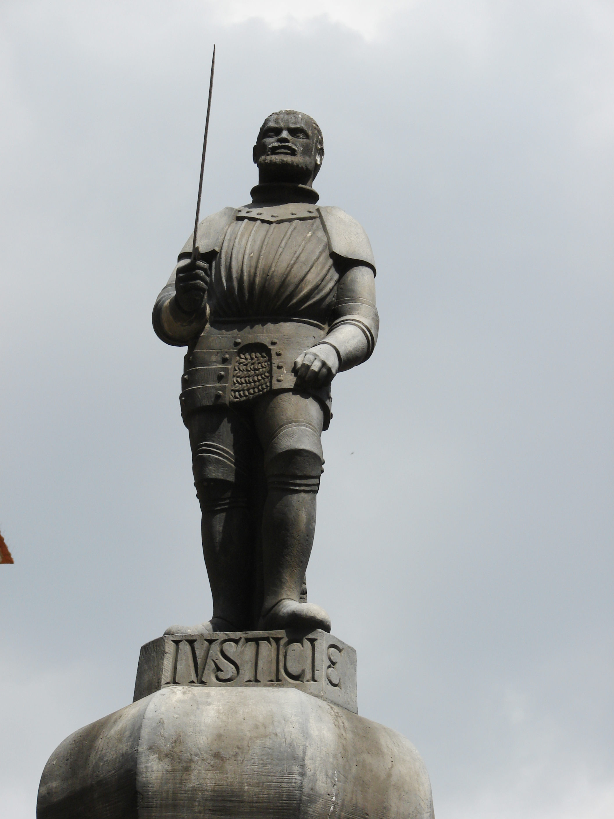 Executor on top of Poznań pranger